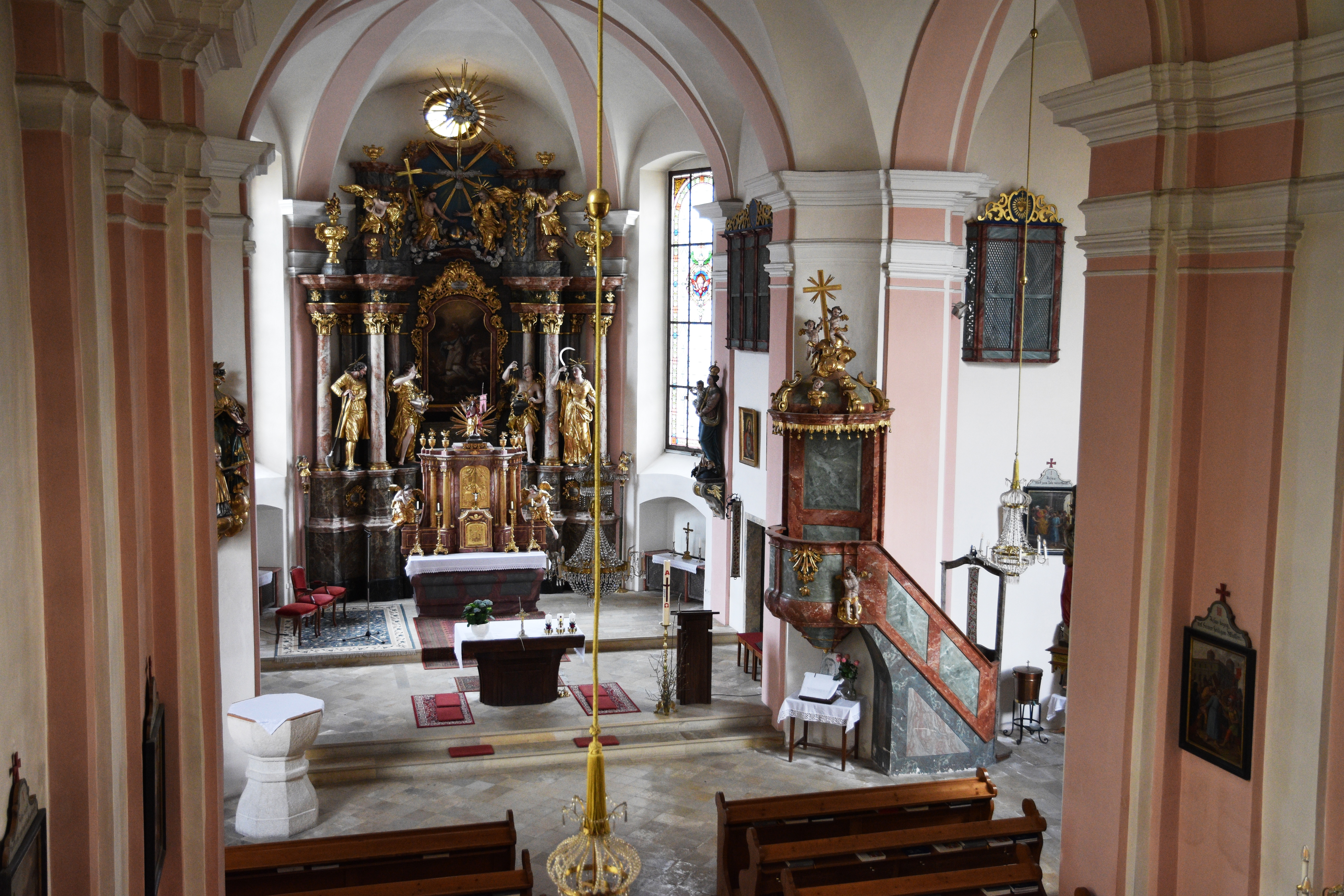 Church Pfarrkirche hl. Erhard, Wartberg im Mürztal Interior